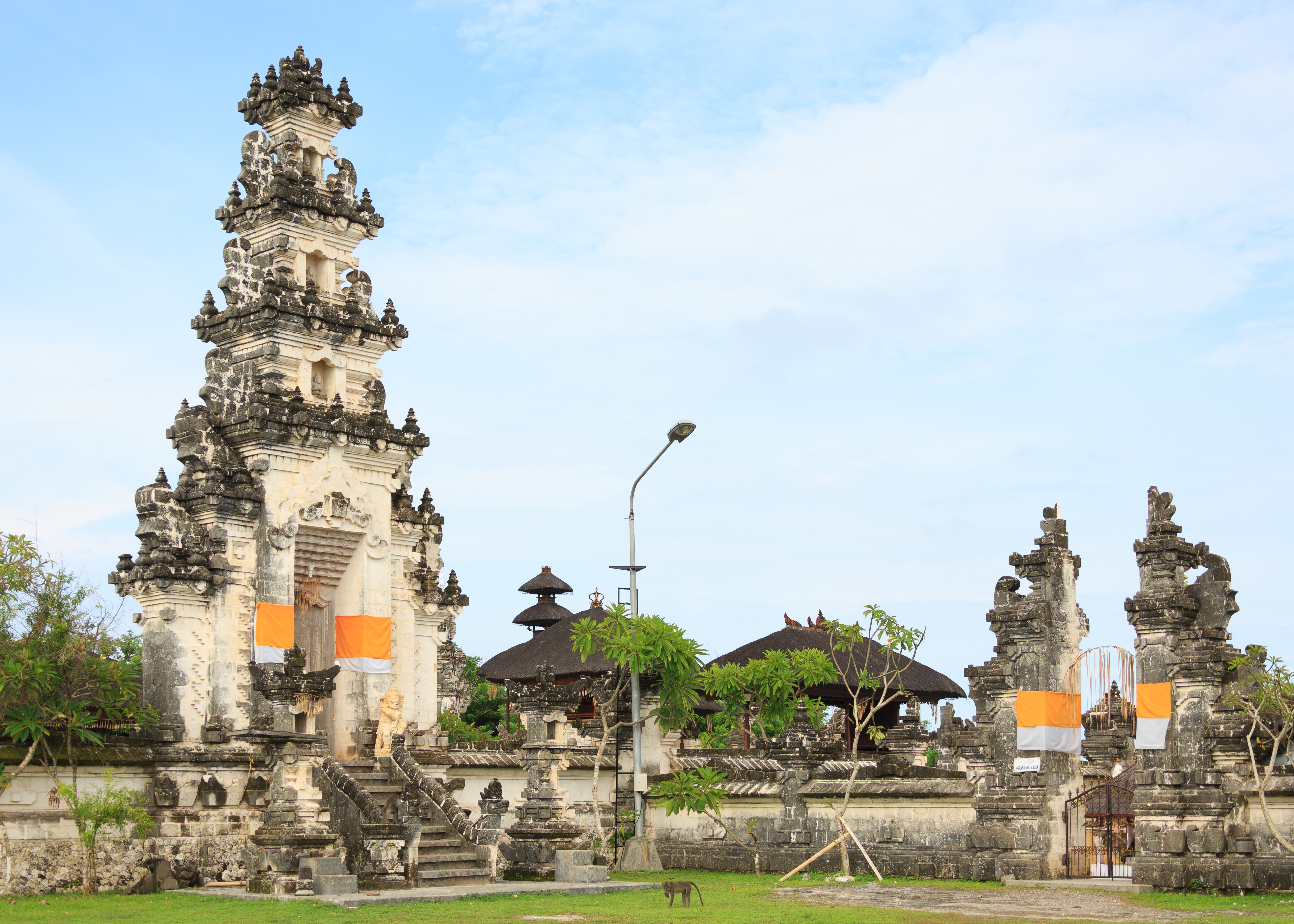 Kuta, Bali, Indonesia: Pura Gunung Payung, a balinese hindu temple.